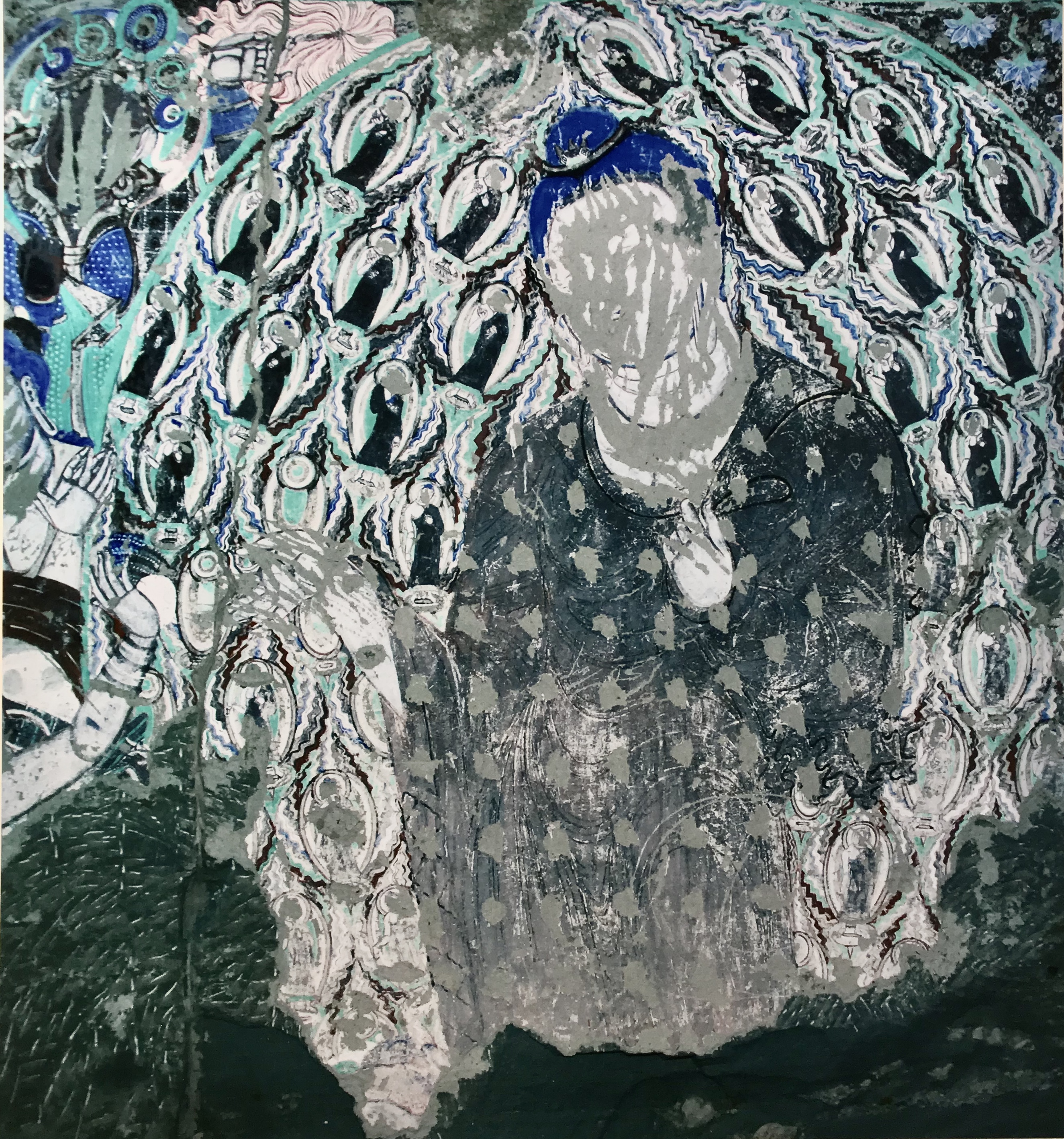 Reproduced mural of cave 123 in Kizil Caves, Xinjiang